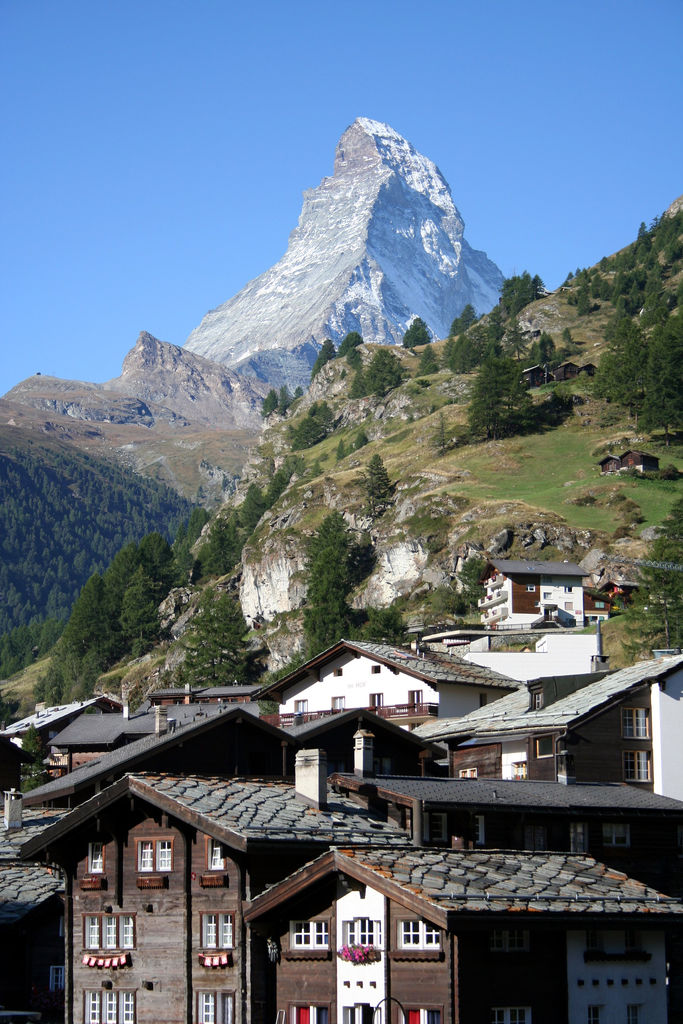 Zermatt with Matterhorn